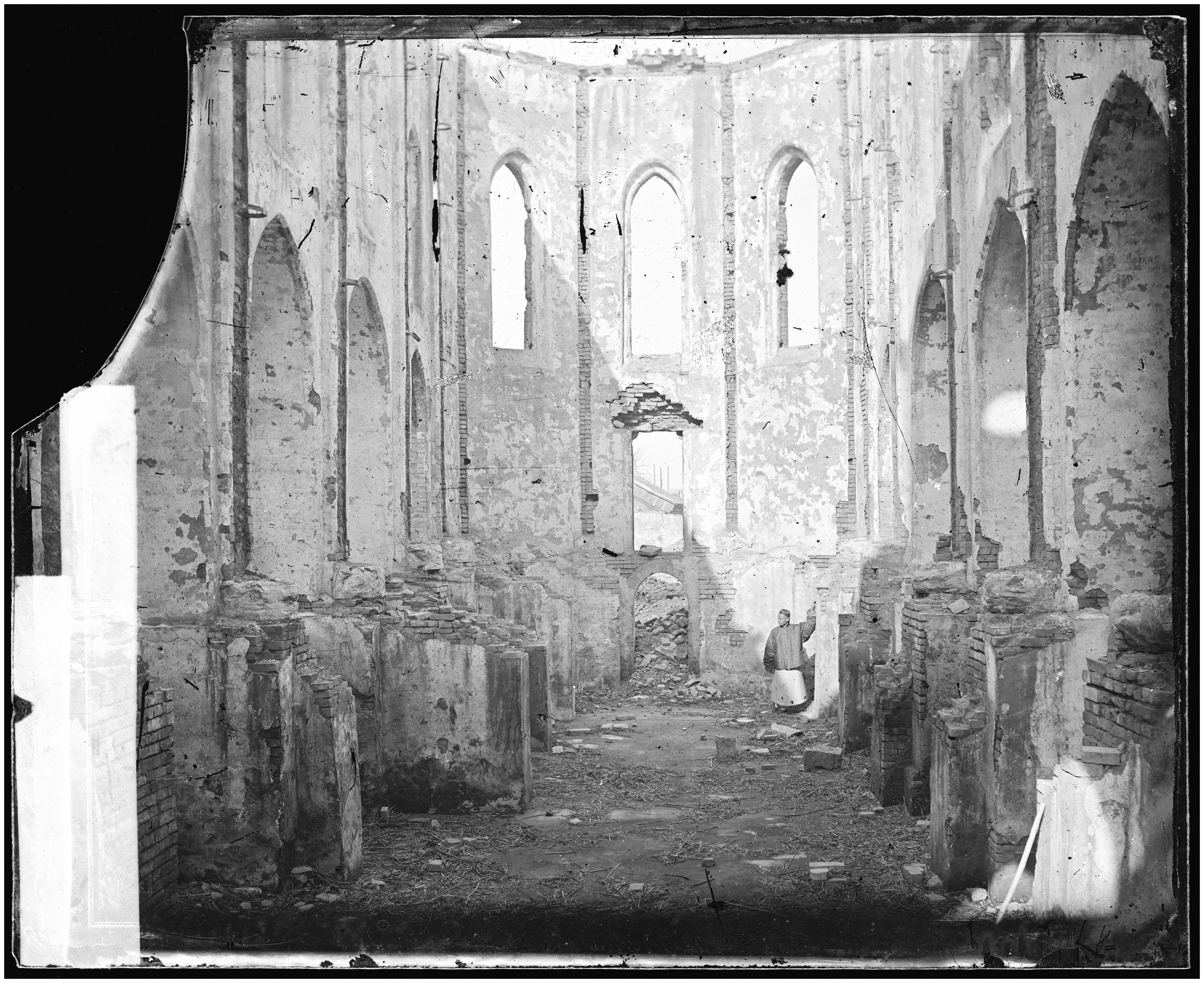 Tianjin (Tientsin), China: interior ruins of the Chapel of the Sisters of Charity after the Tianjin Massacre. Photograph by John Thomson, 1871. Iconographic Collections Keywords: J. Thomson